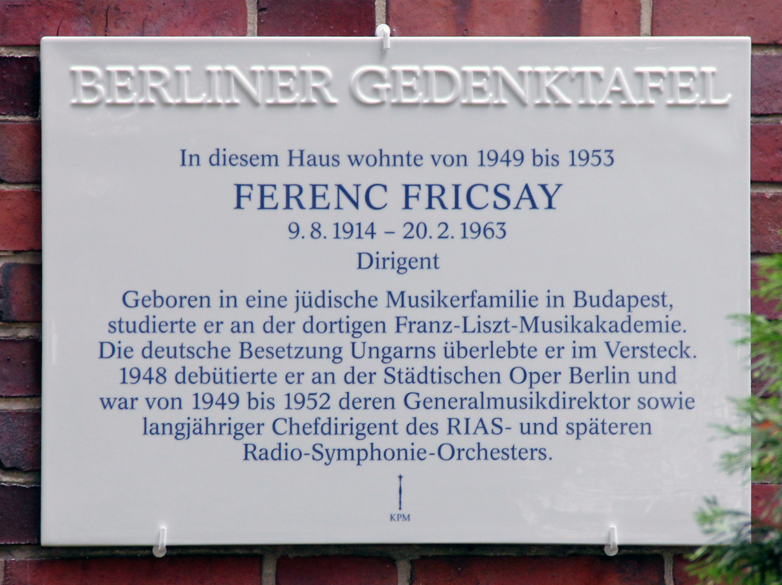 Berlin memorial plaque, Ferenc Fricsay, Pücklerstraße 22, Berlin-Dahlem, Germany